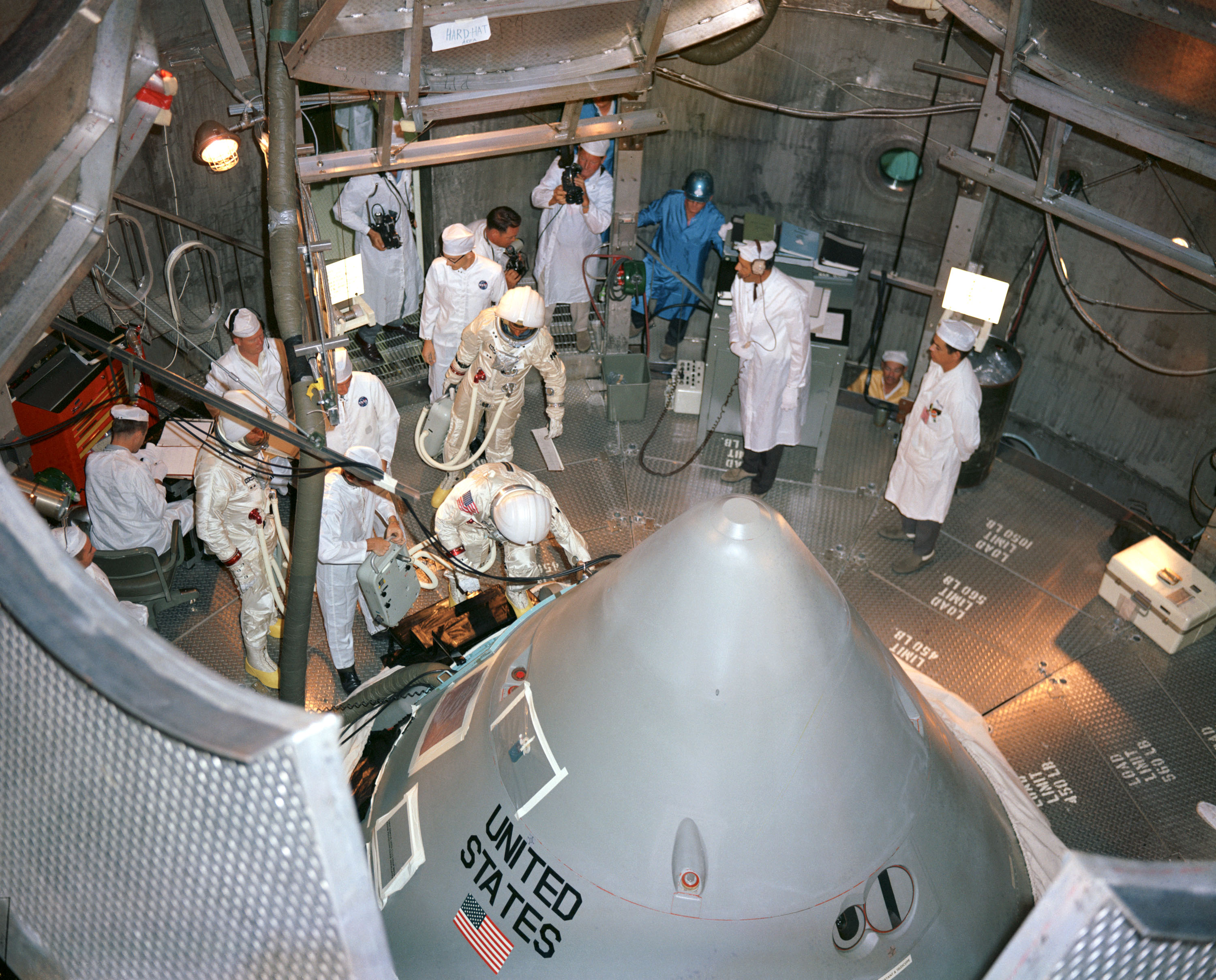 The Apollo 1 prime crewmembers for the first manned Apollo Mission (204) prepare to enter their spacecraft inside the altitude chamber at the Kennedy Space Center (KSC). Entering the hatch is astronaut Virgil I. Grissom, command pilot; behind him is astronaut Roger B. Chaffee, pilot; standing at the left with chamber technicians is astronaut Edward H. White II, senior pilot.